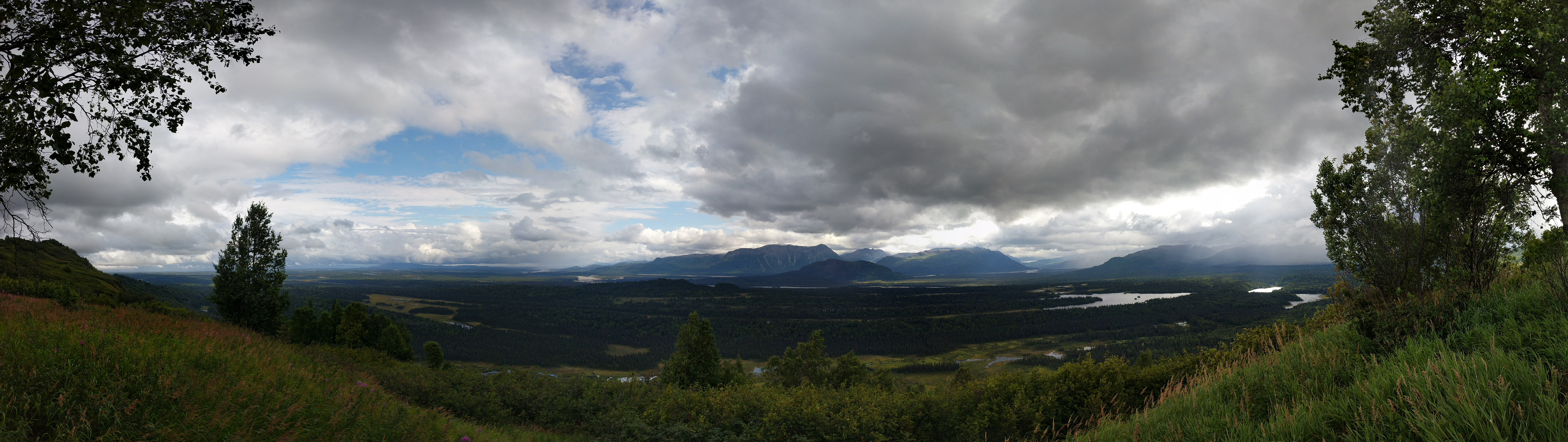 Panorama taken from close to the furthest southeastern extension of the Kichatna Mountain range, showing Skwentna River.